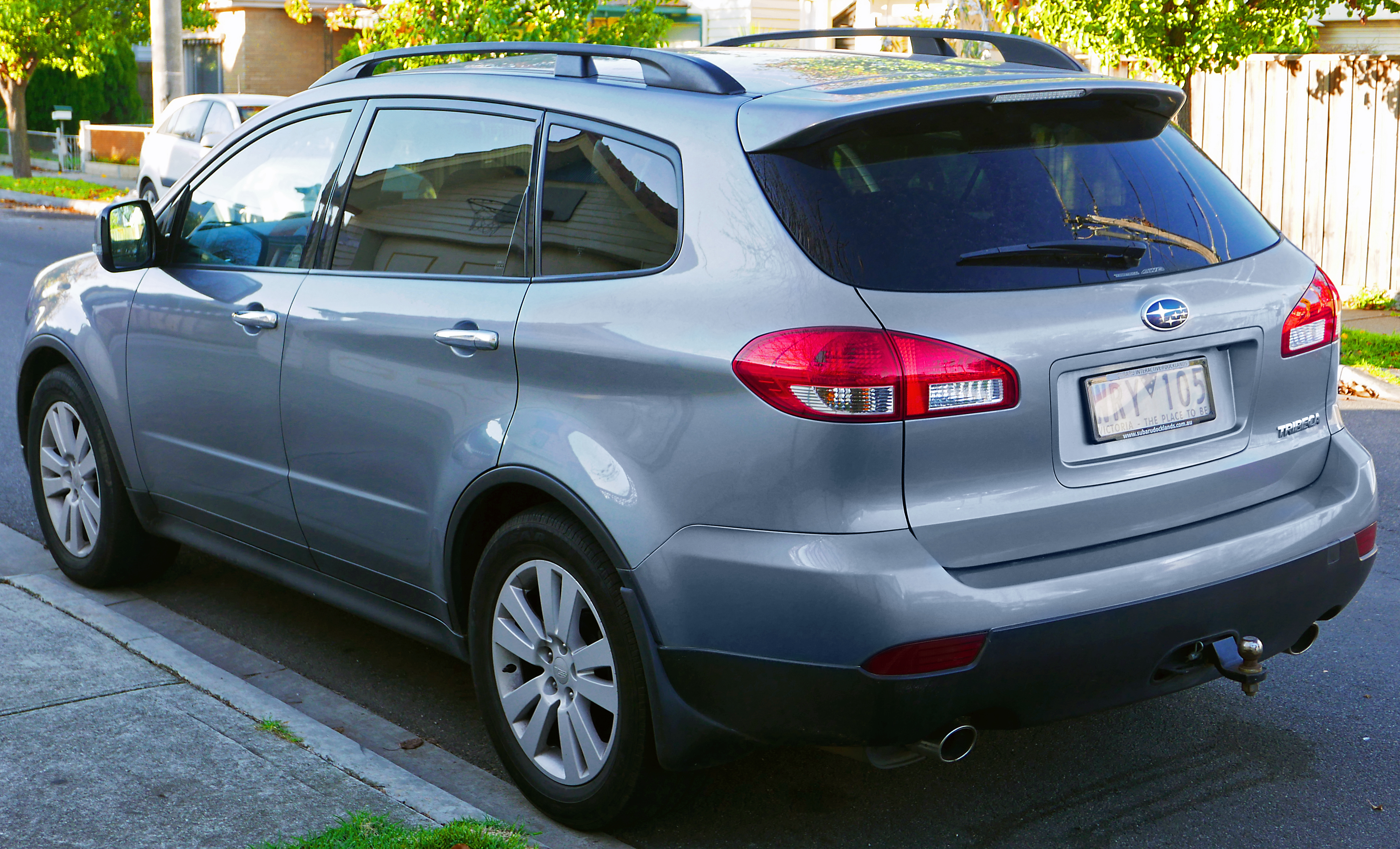 2008 Subaru Tribeca (B9 MY08) R Premium Pack wagon. Photographed in Northcote, Victoria, Australia. Vehicle registration enquiry results Jurisdiction Victoria Registration WRY105 Chassis code 4S4WXFKU59S022993 Engine code EJ36U286230 Compliance date 2009-01 Year of manufacture 2008